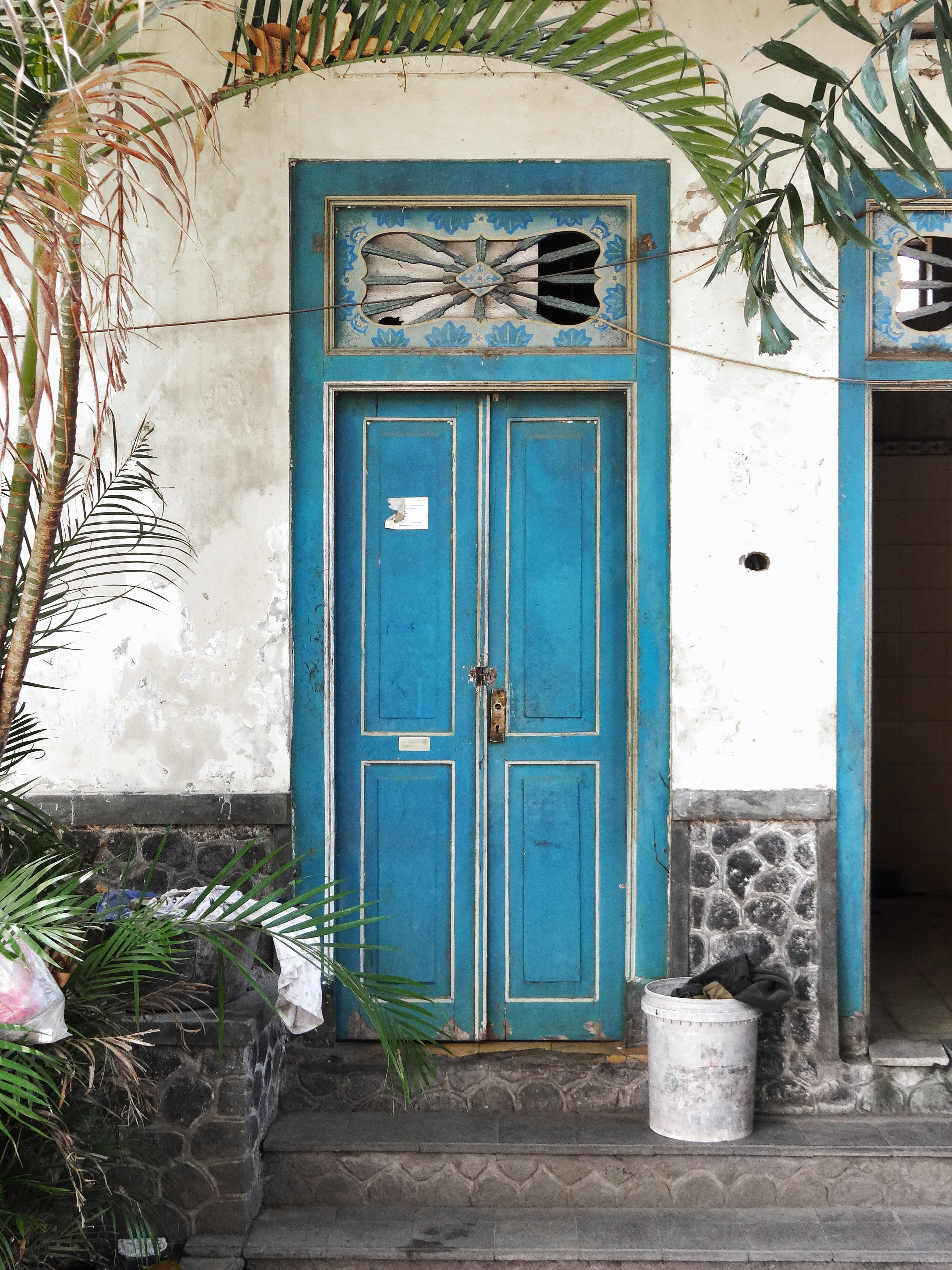 A blue door to a side pavilion in Omah Tembong, Kotagede, Yogyakarta